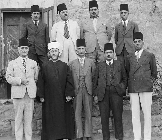 Palestine disturbances 1936. Members of the Arab Higher Committee. Front row from left to right: Ragheb Bey Nashashibi, chairman of the Defence Party, Haj Amin eff. el-Husseini, Grand Mufti & president of the Committee, Ahmed Hilmi Pasha, Gen. Manager of the Jerusalem Arab Bank, Abdul Latif Bey Es-Salah, chairman of the Arab National Party, Mr. Alfred Roke, influential land-owner Back row from left to right: Jamal al-Husayni, Husayn al-Khalidi, Yaqub al-Ghusayn, Fuad Saba